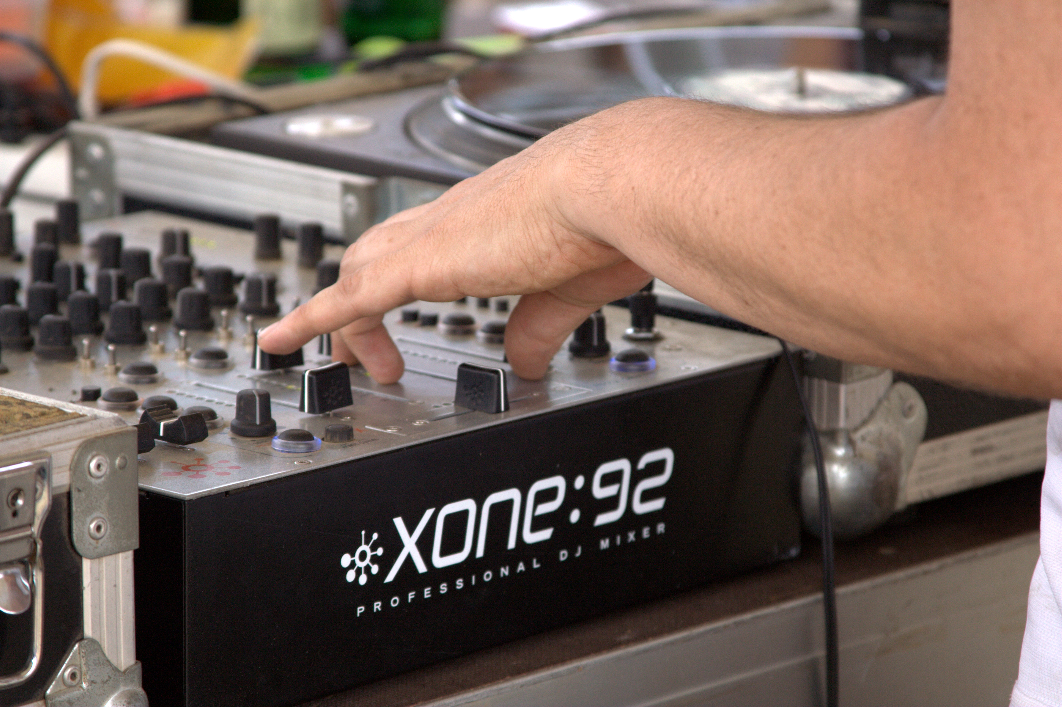 Allen & Heath xone:92 Professional 6 ch Club/DJ mixers Nation of Gondwana